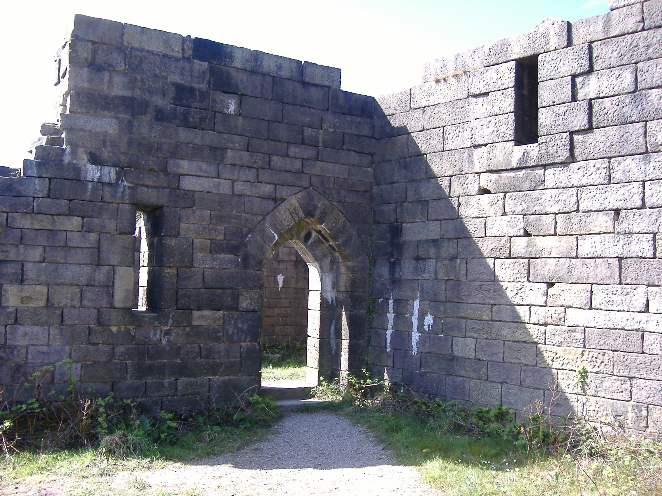 Liverpool Castle, Rivington